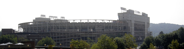 I took this photo and allow its use. 2005-08-17 06:32 Zereshk 640×171 (53354 bytes)